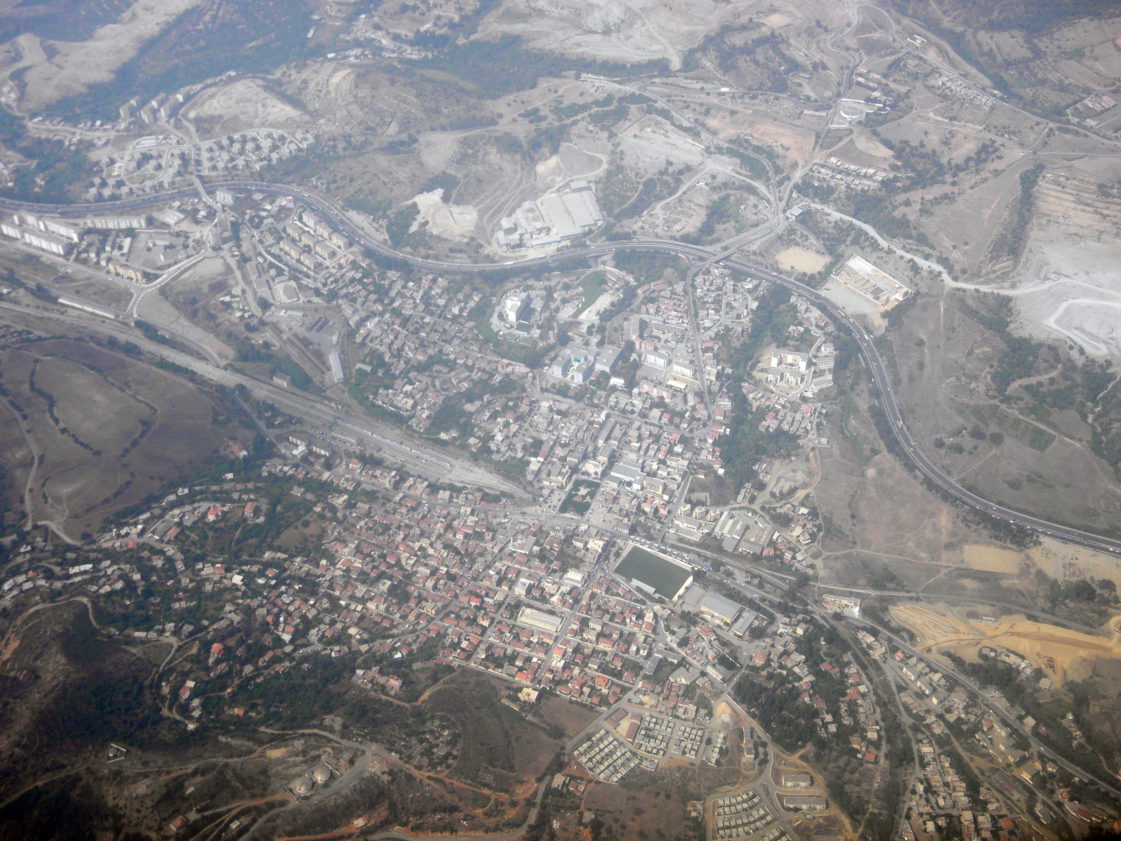 Aerial view of Thenia town, the 11th of september 2012